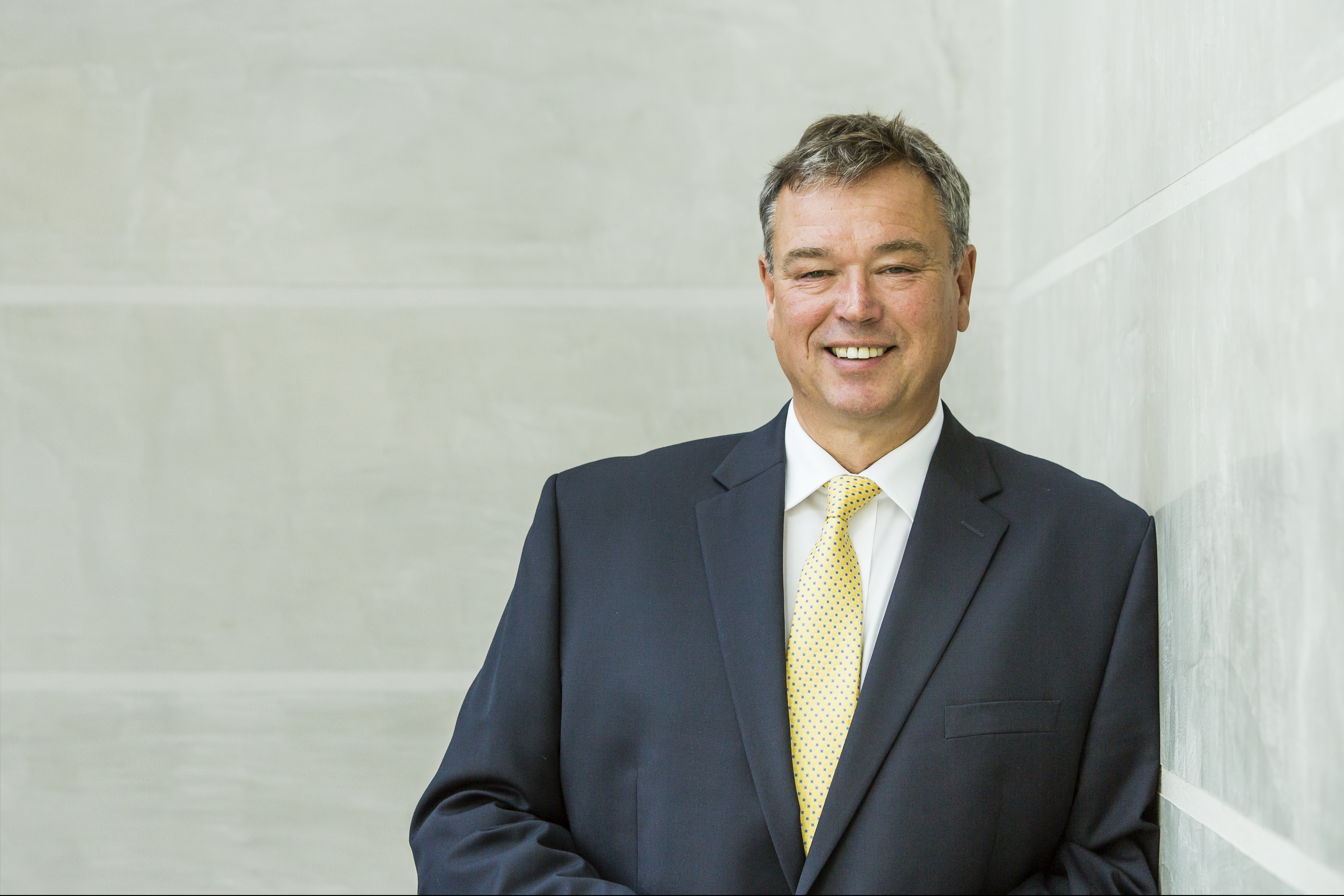 This is a portrait from 2016 of Novozymes President and CEO, Mr. Peder Holk Nielsen